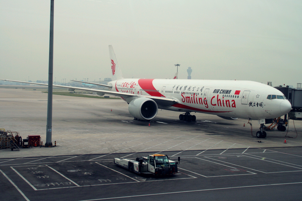 Air China Boeing 777-300ER in Smiling China Livery. It served the CA987 (Beijing - Los Angeles) route on the day when the picture was taken.